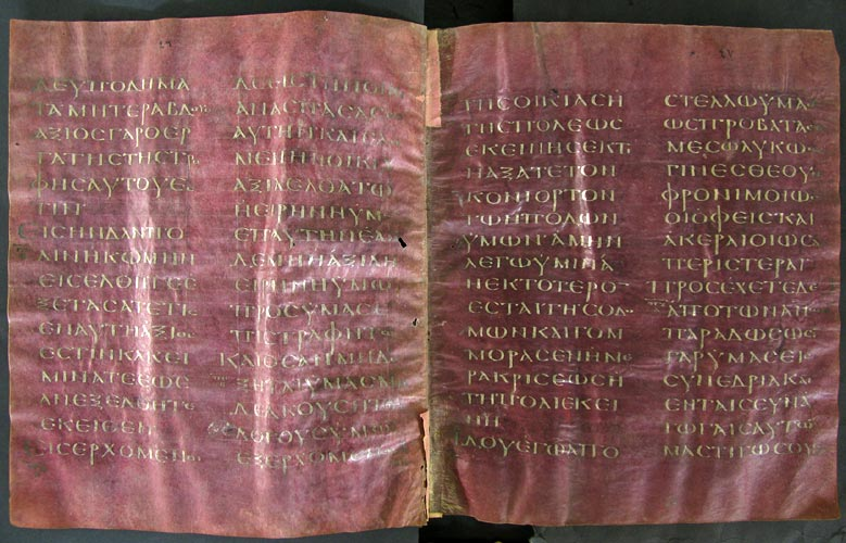 text of Gospel of Matthew 10:10-17